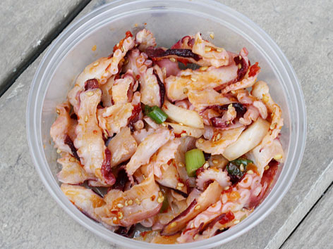 kimchi tako poke